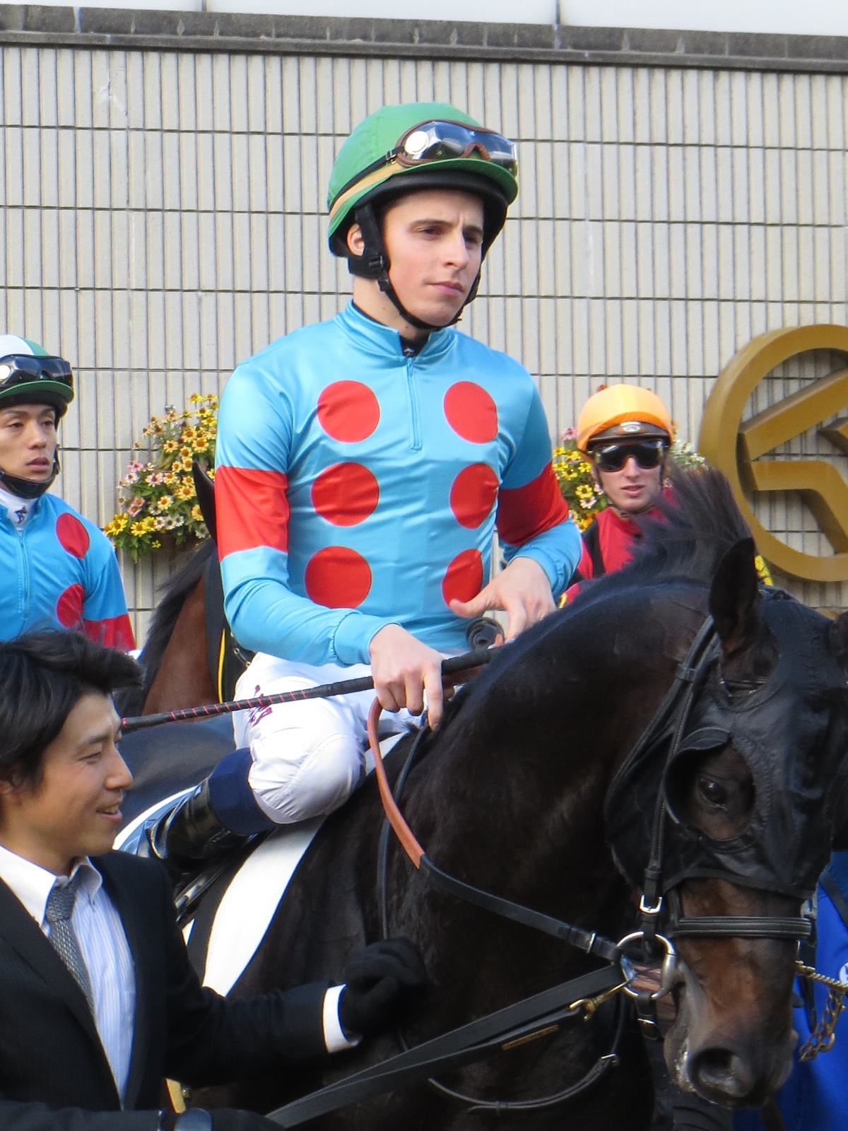 William Buick in Kyoto Racrcourse.